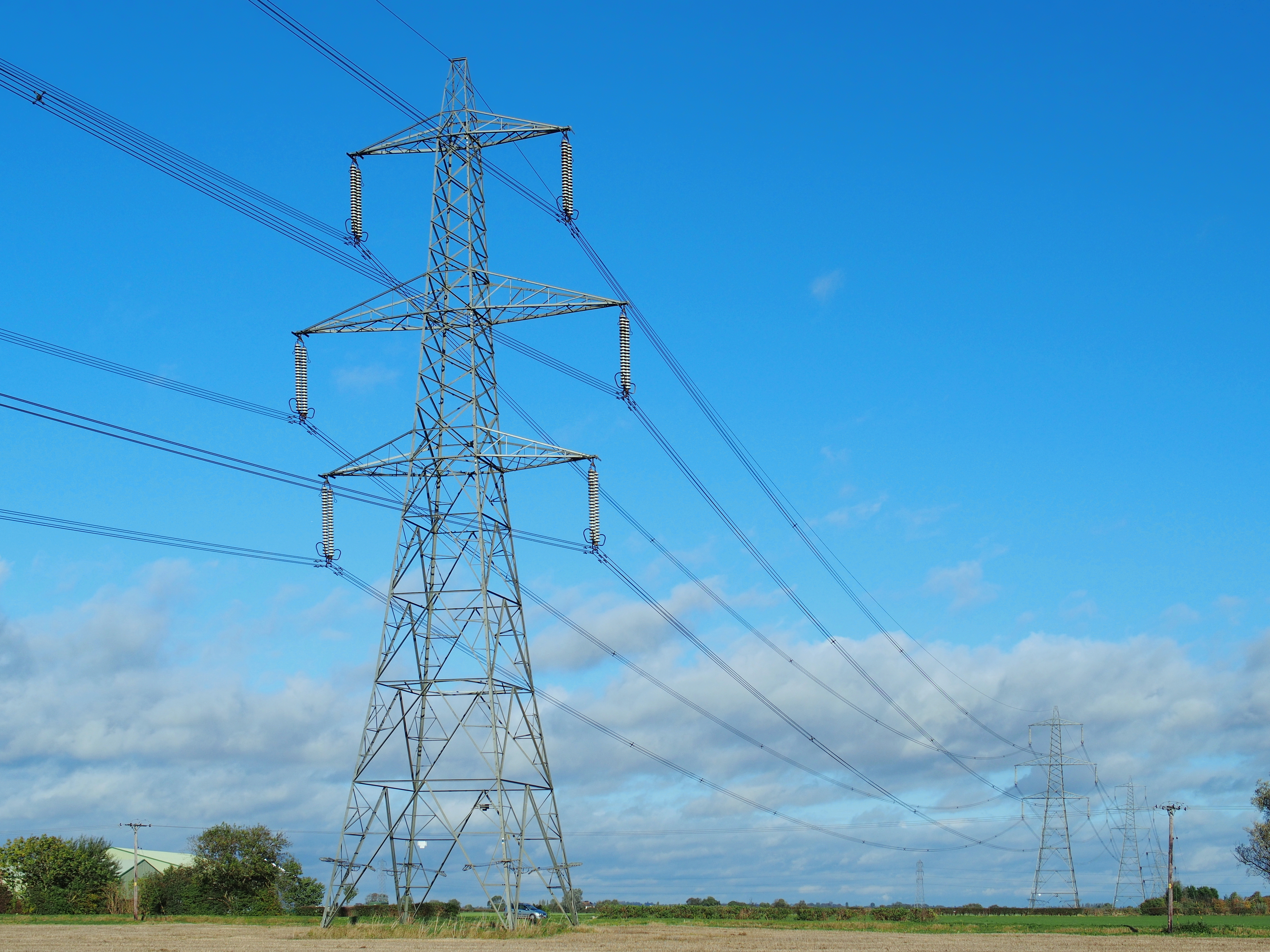 Typical shape of a British National Grid transmission tower at Long Bennington